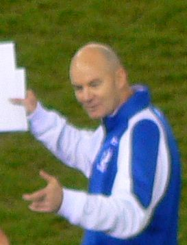 Darren Crocker, Australian rules football coach